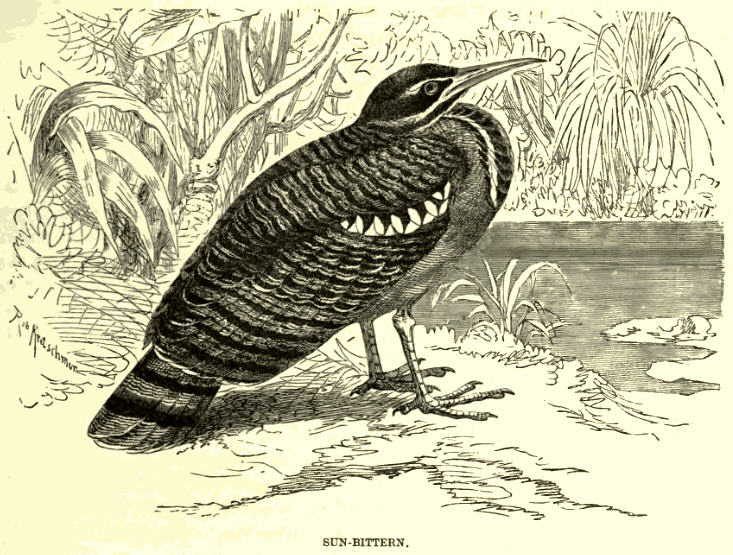 Sunbittern, Eurypyga helias